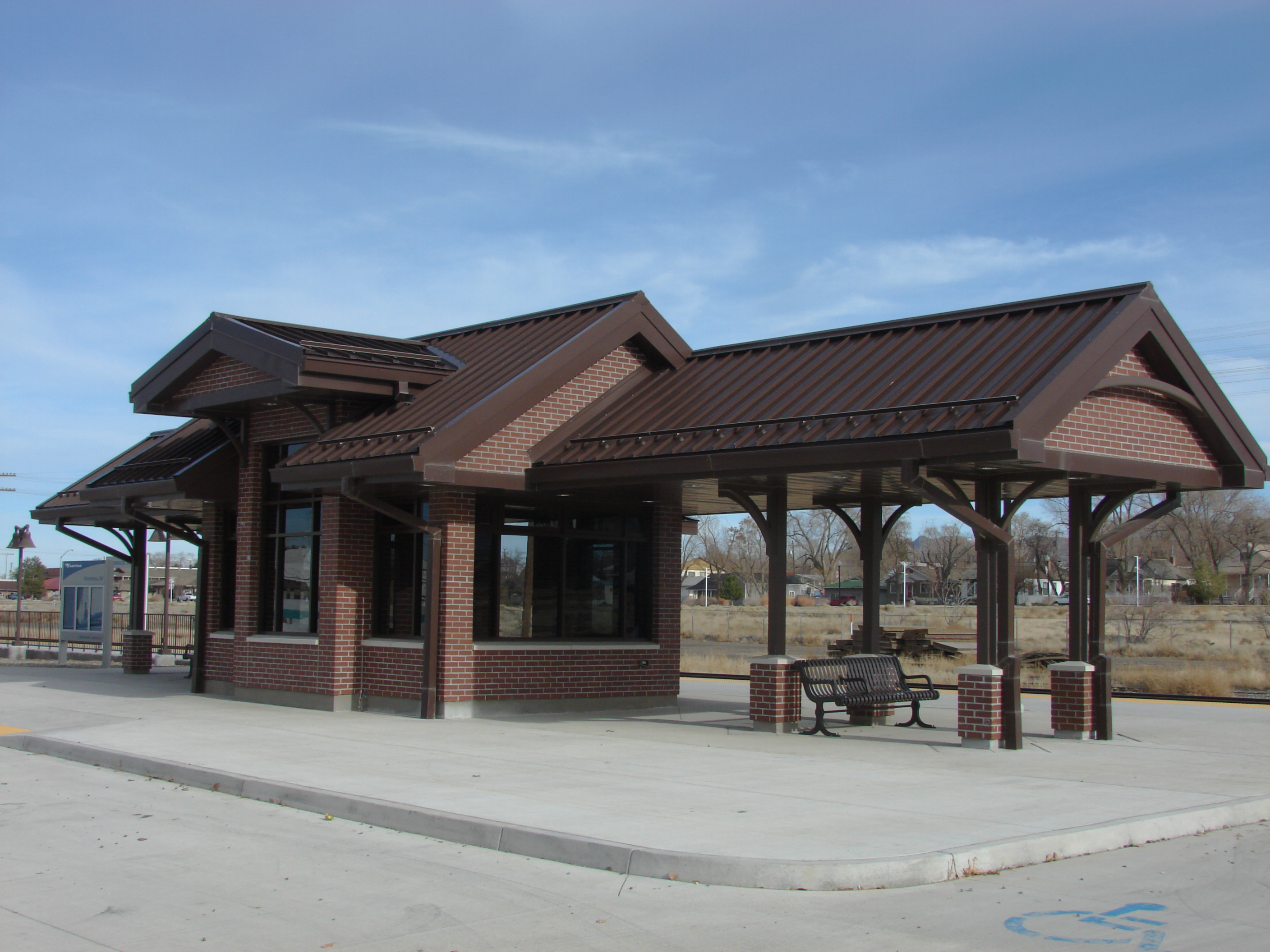 West corner of the new Winnemucca Amtrak Station